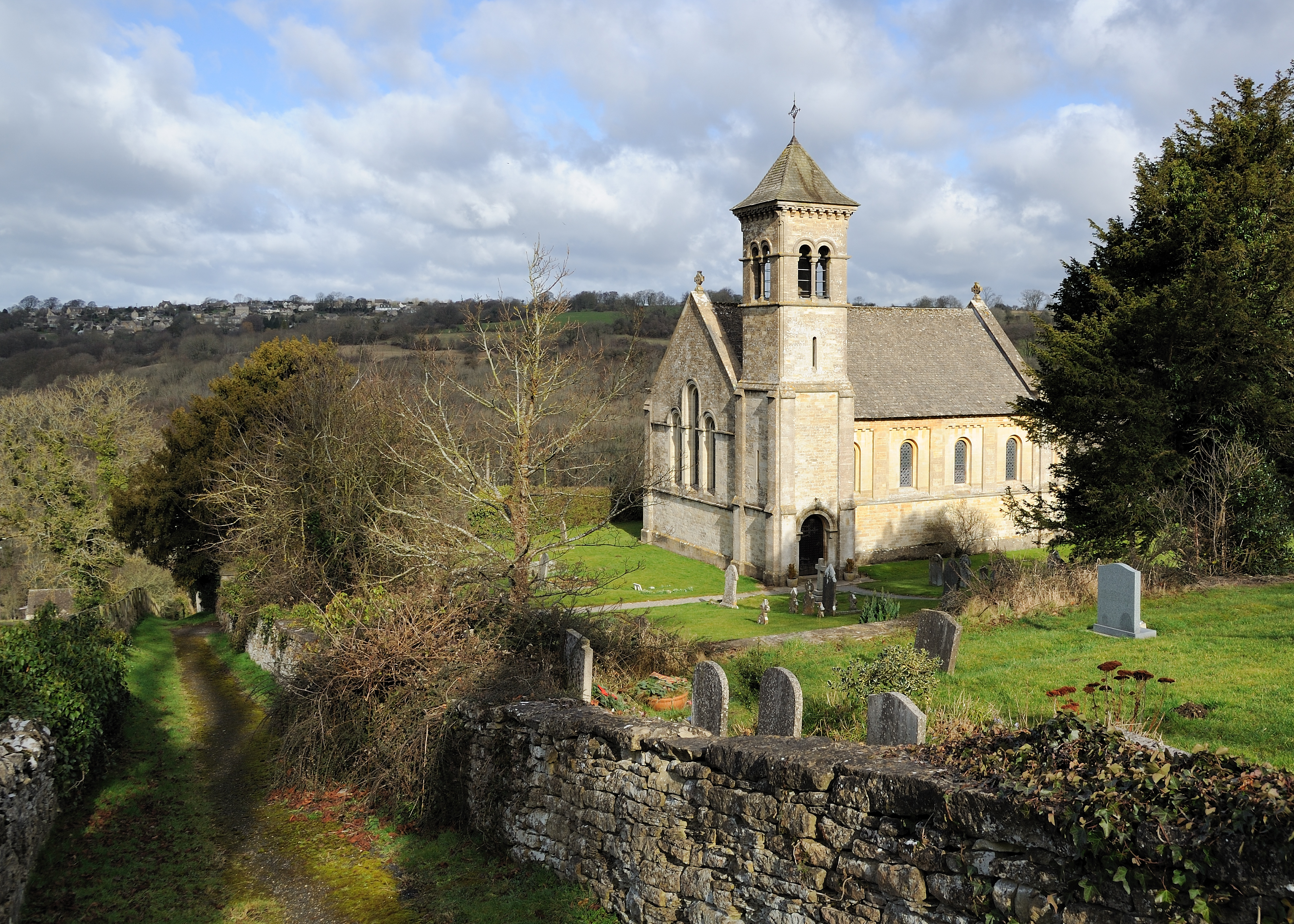 St Luke's Church in Frampton Mansell was built in 1843 by Lord Bathurst. The church sits on the top of a deep valley within the Cotswolds. The Italian style design is by J. Parish. There are a set of original five stained glass windows within the apse with one dedicated to Christ and one each for the apostles Matthew, Mark, Luke and John. St Luke's Church is an English Heritage Grade II Listed Building